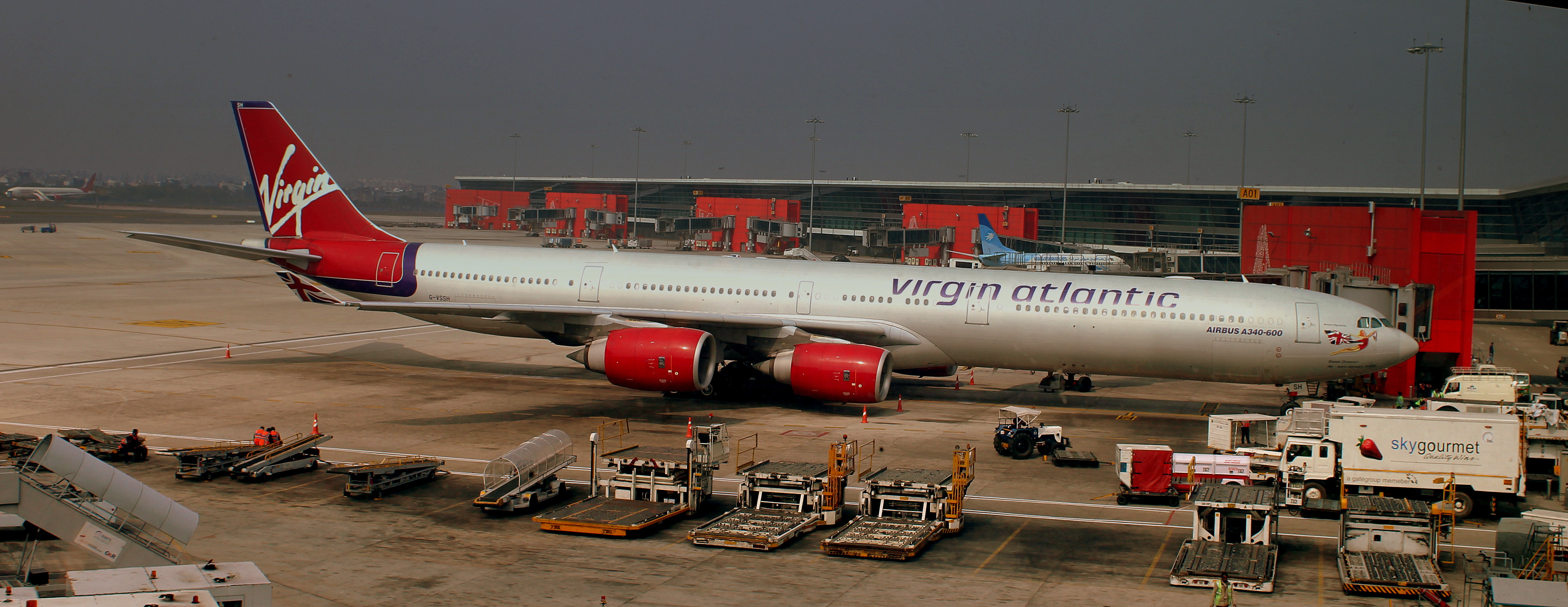 Virgin Atlantic Airbus A340-600 G-VSSH at Indira Gandhi Airport Delhi India February 2013